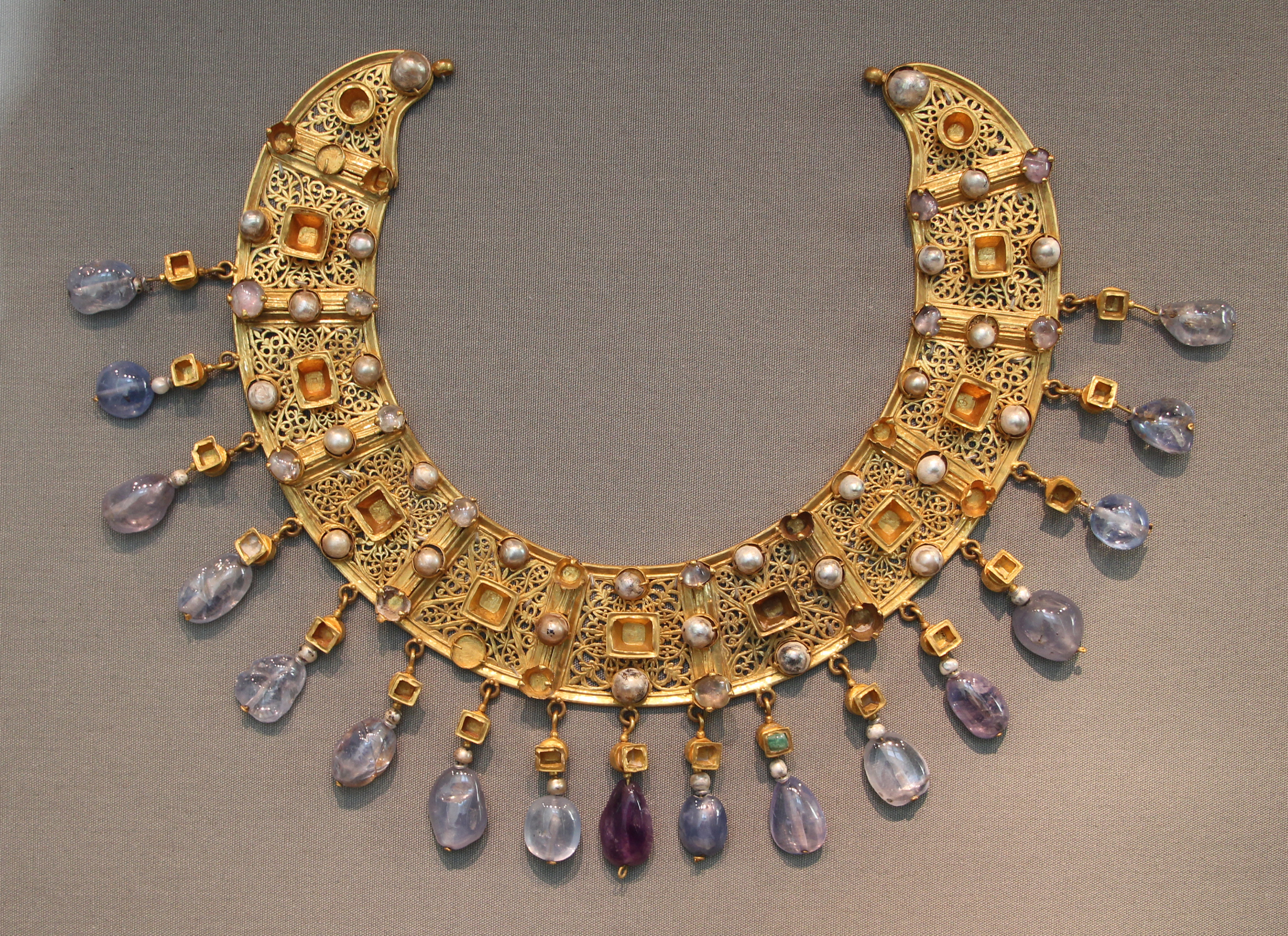 Byzantine collier; late 6th-7th century; gold, emeralds, sapphires, amethysts and pearls; diameter: 23 cm; from a Constantinopolitan workshop; Antikensammlung Berlin (Berlin, Germany)